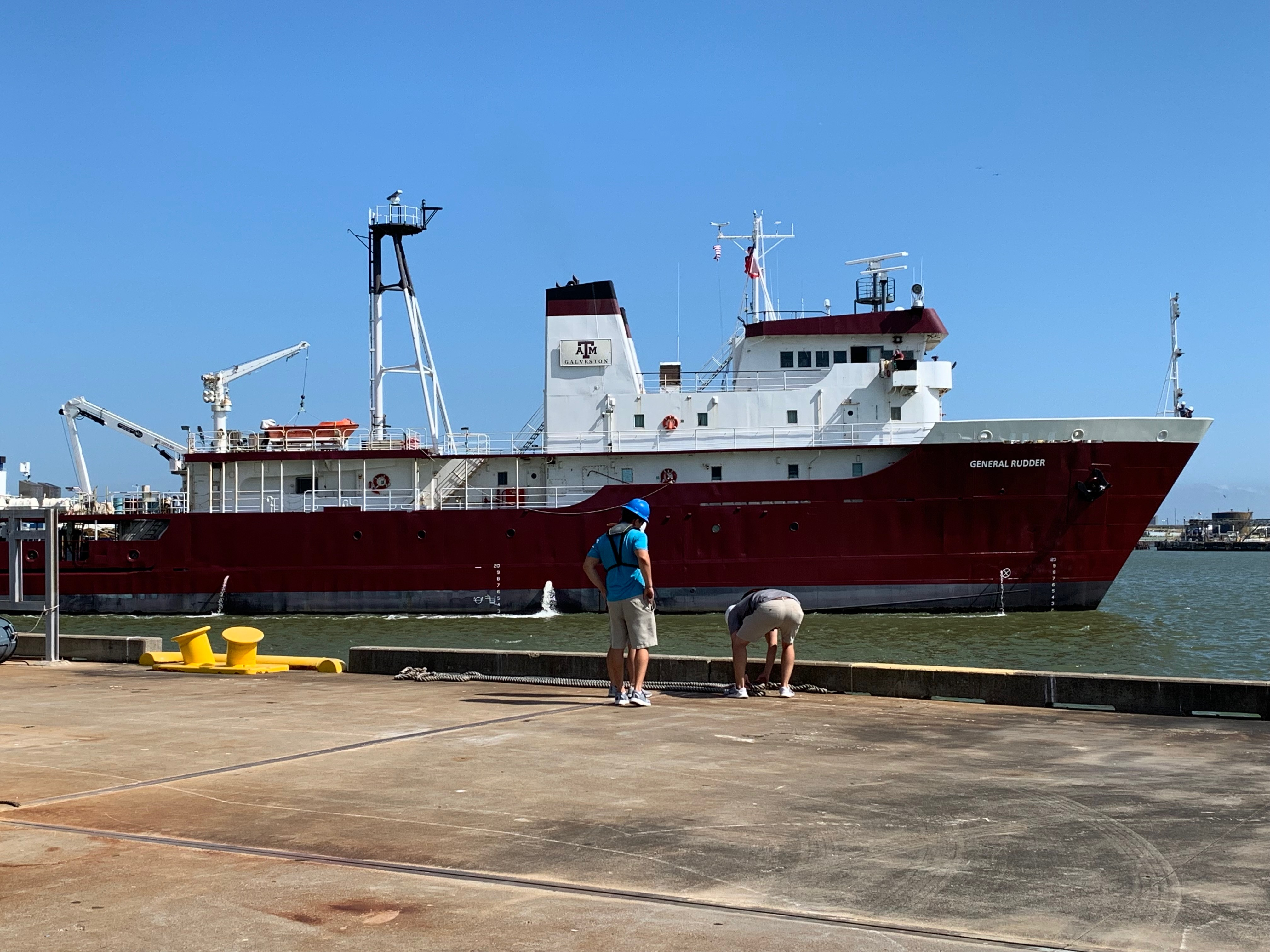 The T/S General Rudder on approach to the Texas A&M Maritime Academy in 2019 after a successful overhaul period.